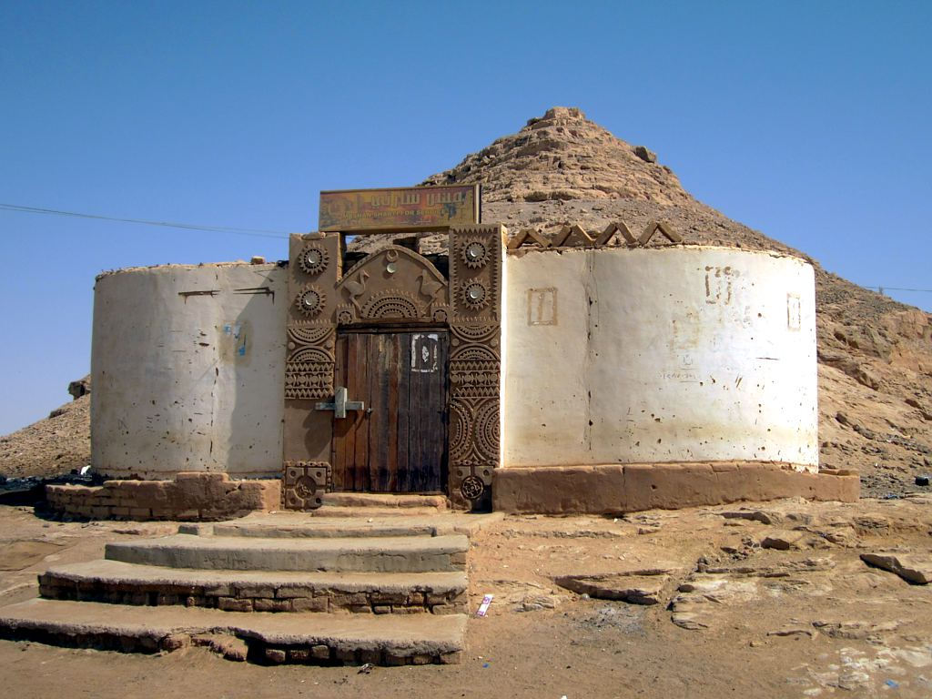 a traditional house in Wadi Halfa, Sudan